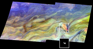 image associates lightning strikes (bright marks in lower insert) with a specific, localized storm in the atmosphere.